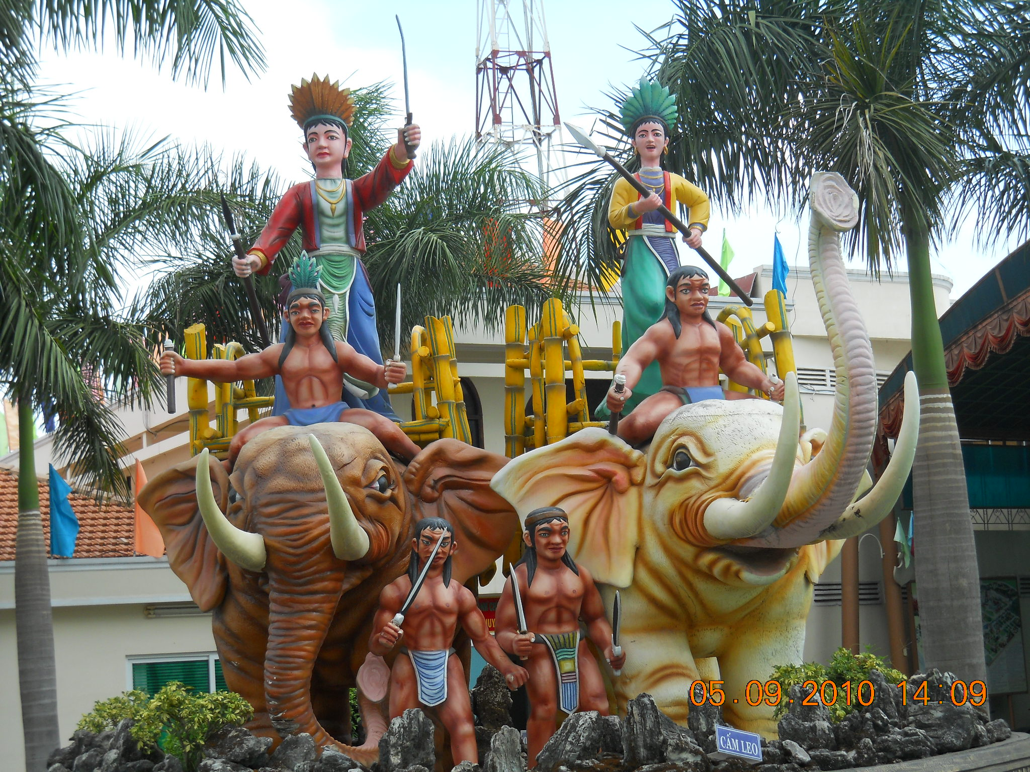 The statue of Hai Ba Trung in the Suoi Tien Amusement Park, which is located at the 9th District, Ho Chi Minh City, Vietnam.